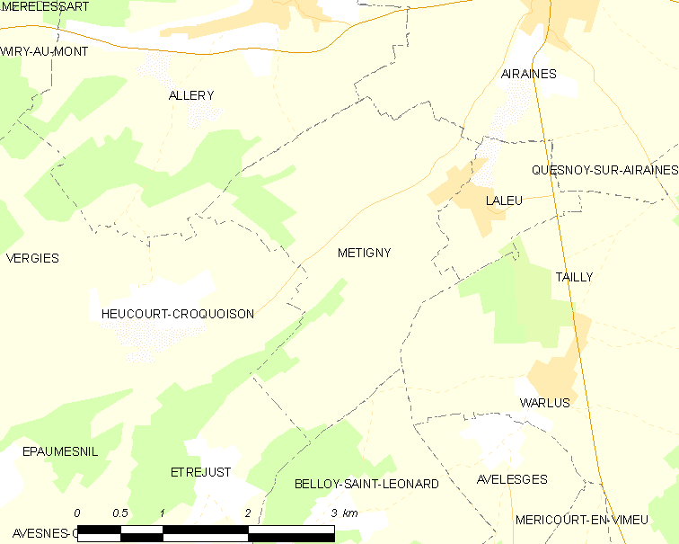 Map of French municipality Métigny